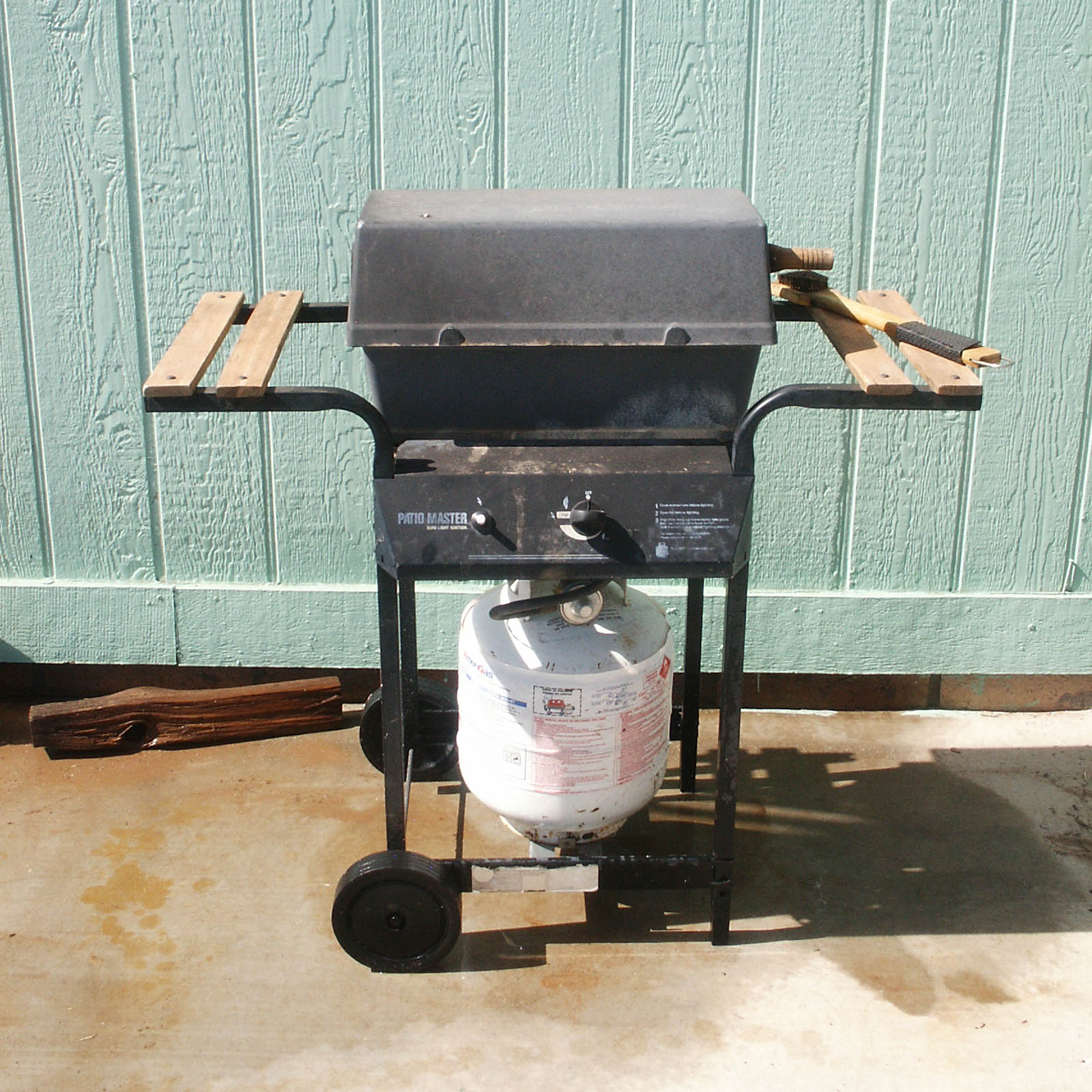 A standard single-burner propane gas grill.